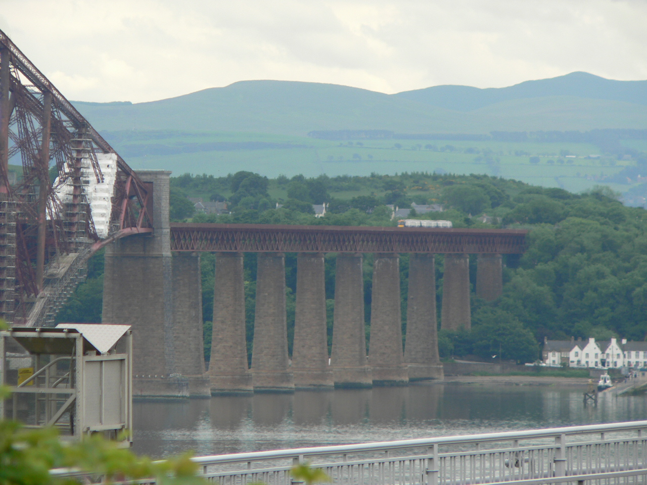 The southern approach viaduct of the Forth rail Bridge, undergoing significant engineering work, viewed from over the Forth Road Bridge. The train on the viaduct is a First ScotRail DMU, possibly a Class 170.